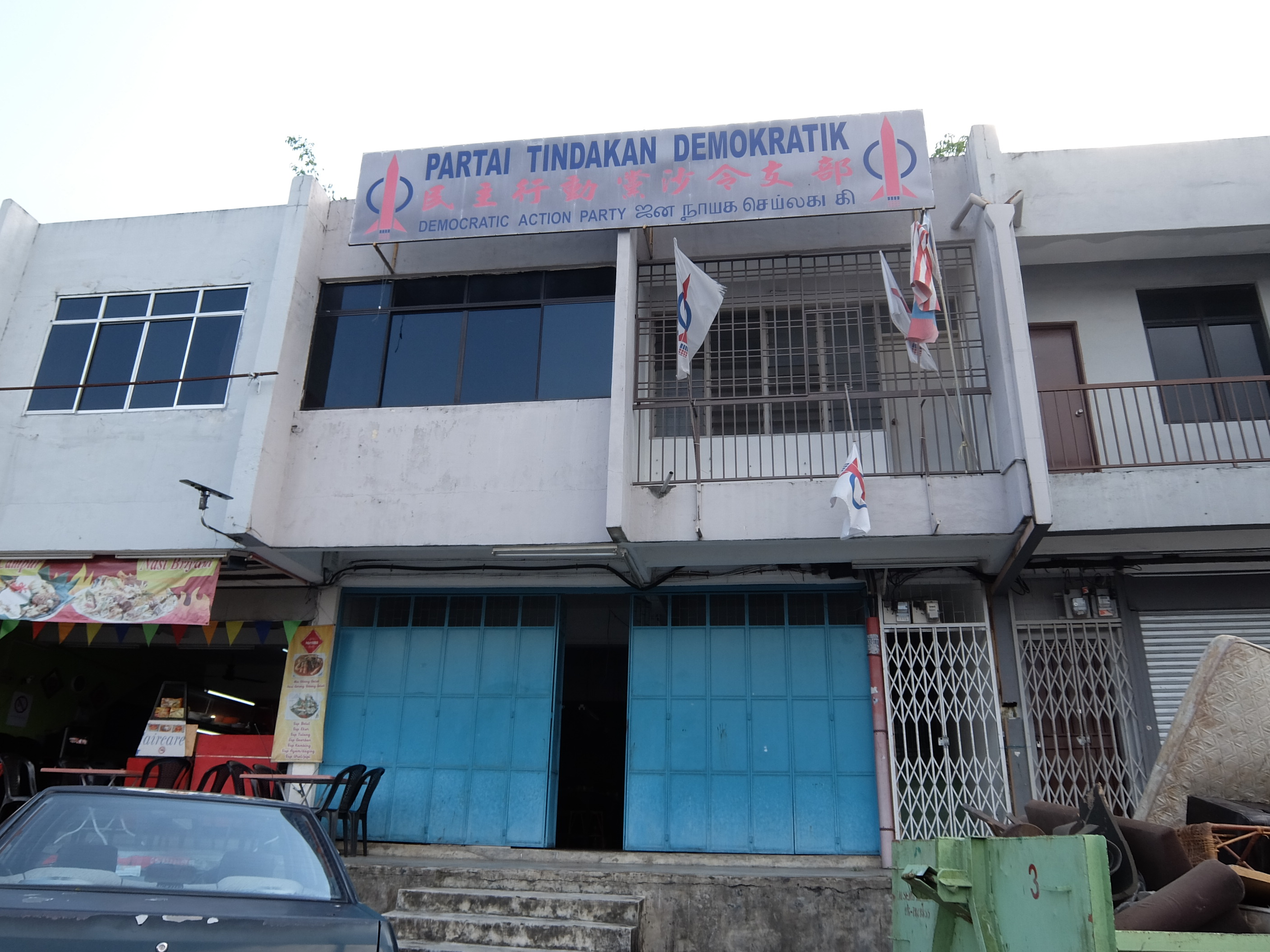 Democratic Action Party, Saleng, Kulai, Johor, MalaysiaBahasa Melayu: Parti Tindakan Demokratik, Saleng, Kulai, Johor, Malaysia